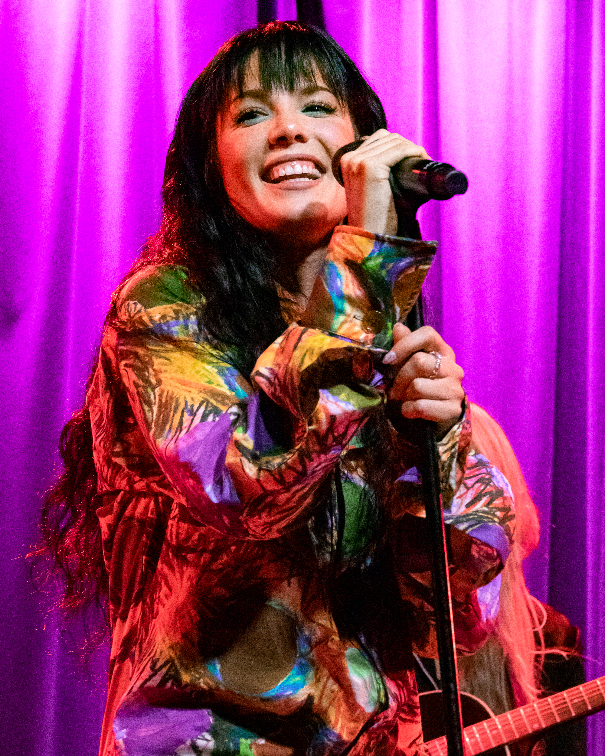 Halsey performing live at the Grammy Museum in Los Angeles on 09/23/2019.